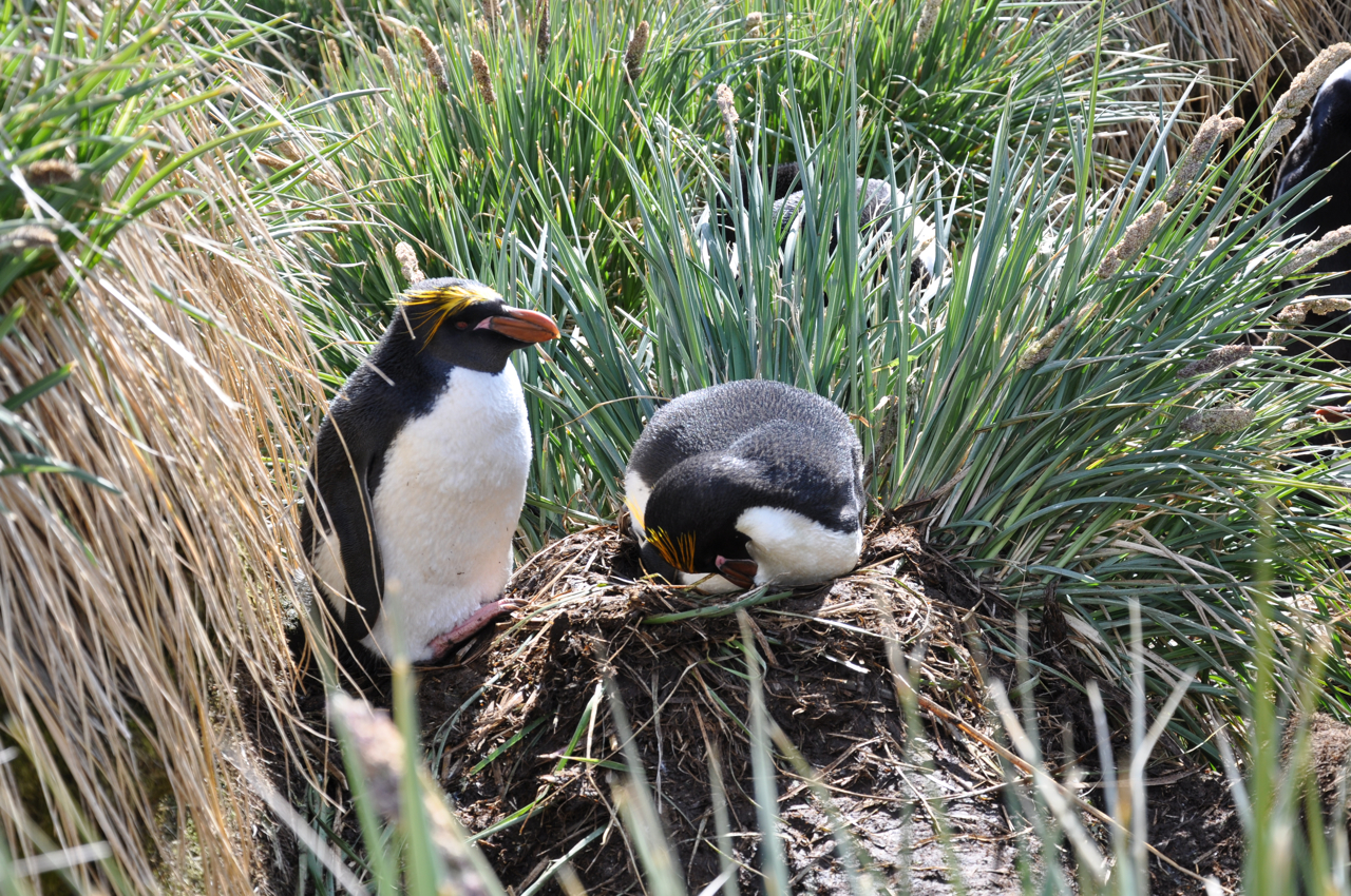 Macaroni Penguin (Eudyptes chrysolophus) - Male and female in nest - South Georgia